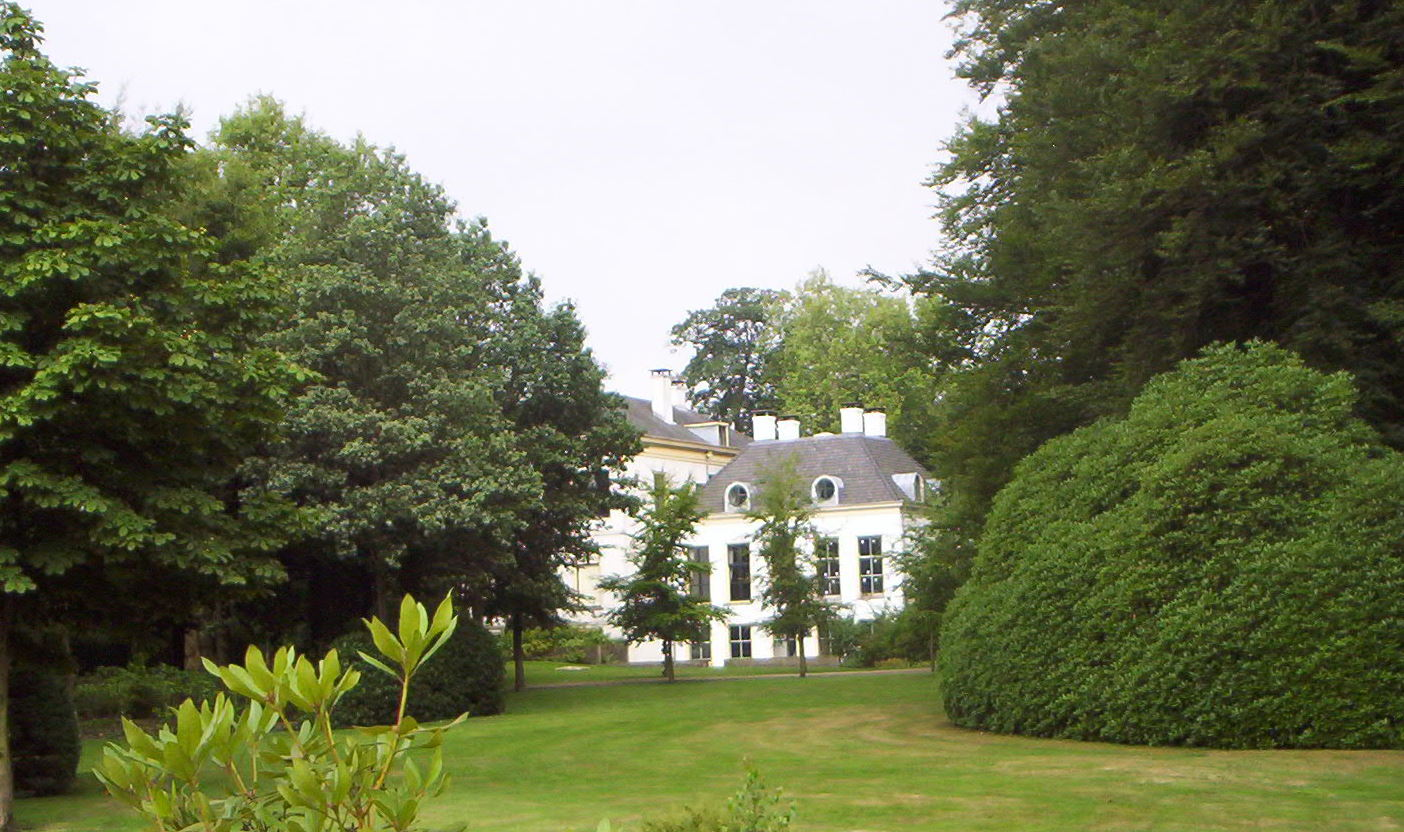 Estate Pijnenburg